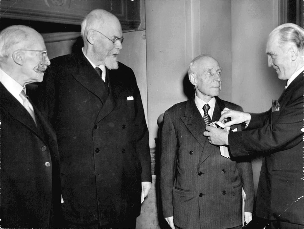 Sextioårsstudenterna telegraftjänsteman Alfred Wahlstedt och professor Wolmar Fellenius ser på medan civilingenjör Nils Fröman lagerkransas av ordföranden direktör Gunnar Strandberg.Norra realare av alla årgångar, från studenter – 94 till andraklassister – 54 samt lärare och målsmän, var på fredagen församlade i läroverksaulan då Norra realarnas förening höll årsmöte under ordförandeskap av försäkringsdirektör Gunnar Strandberg.